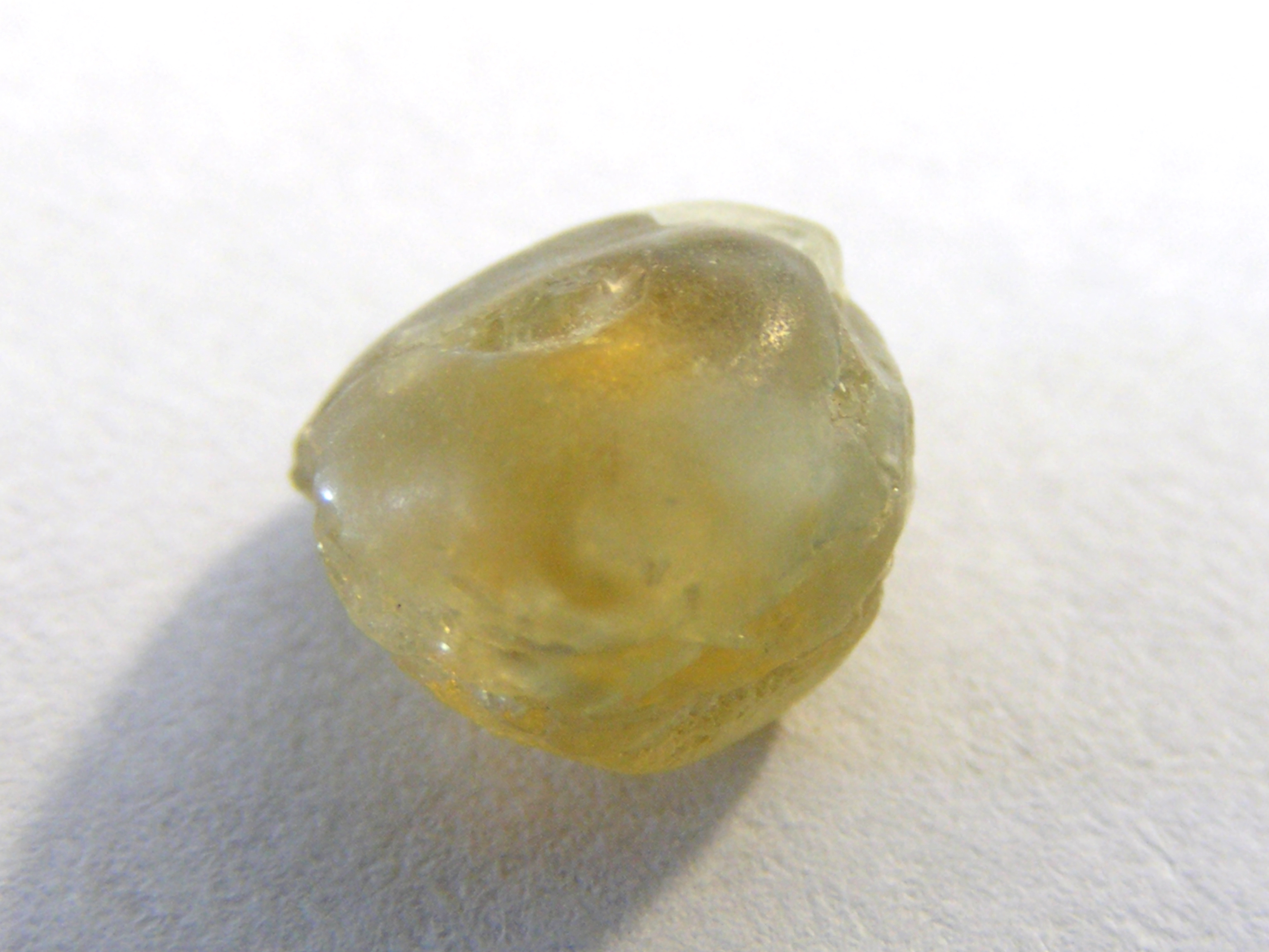 A nice yellow sapphire that I found in my gravel bag from the Spokane bar Sapphire mine near Hauser Lake, Helena Montana.